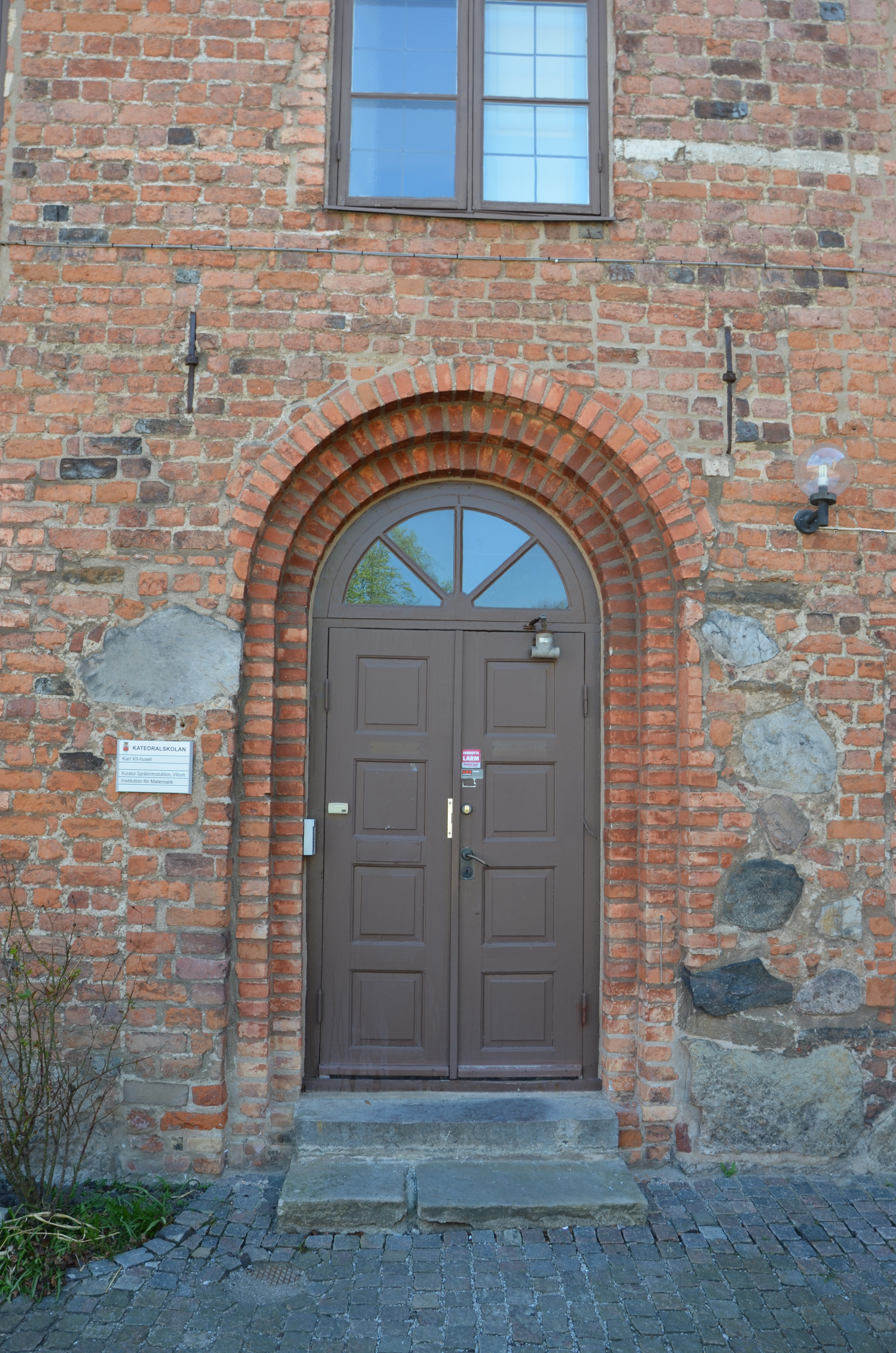 Katedralskolan in Lund, Sweden. Entrance door at the Karl XII house